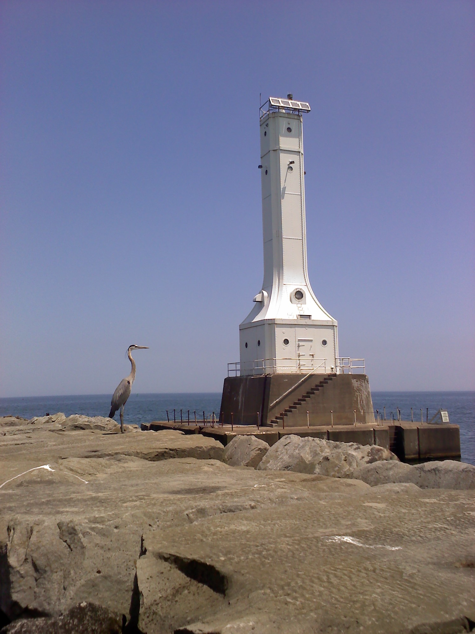 The Huron Harbor Light located at Huron, Ohio on Lake Erie. July 2011. Facing northeast.